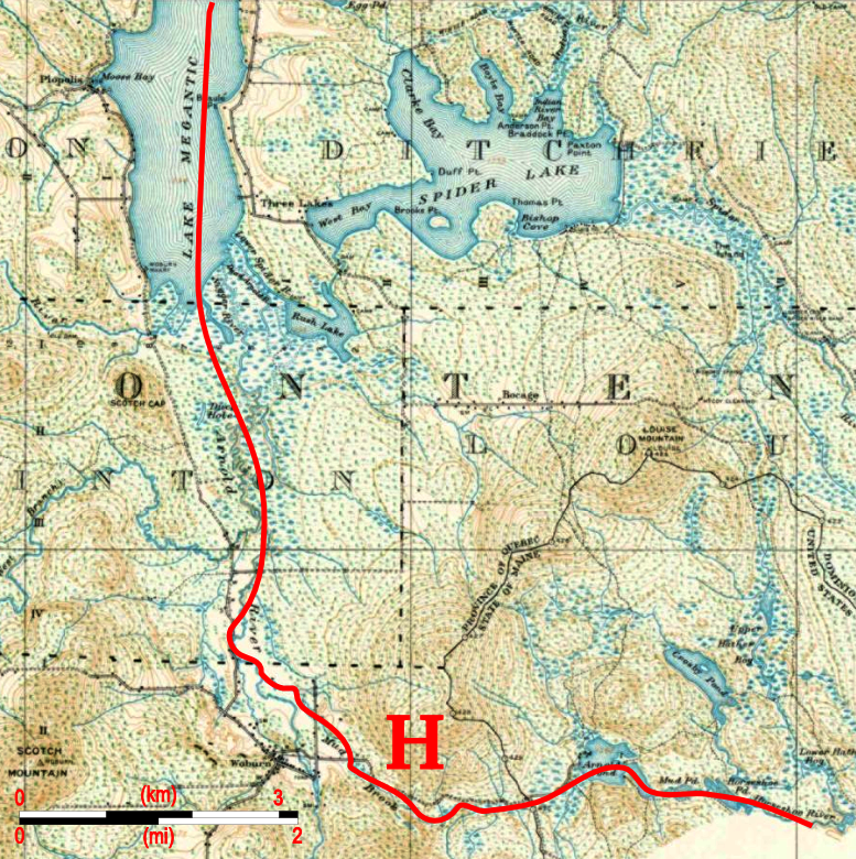 An annotated extract from a 20th-century topographical map indicating the route of Benedict Arnold's expedition across the height of land between the Kennebec River (Maine) and the Chaudière River (Quebec).